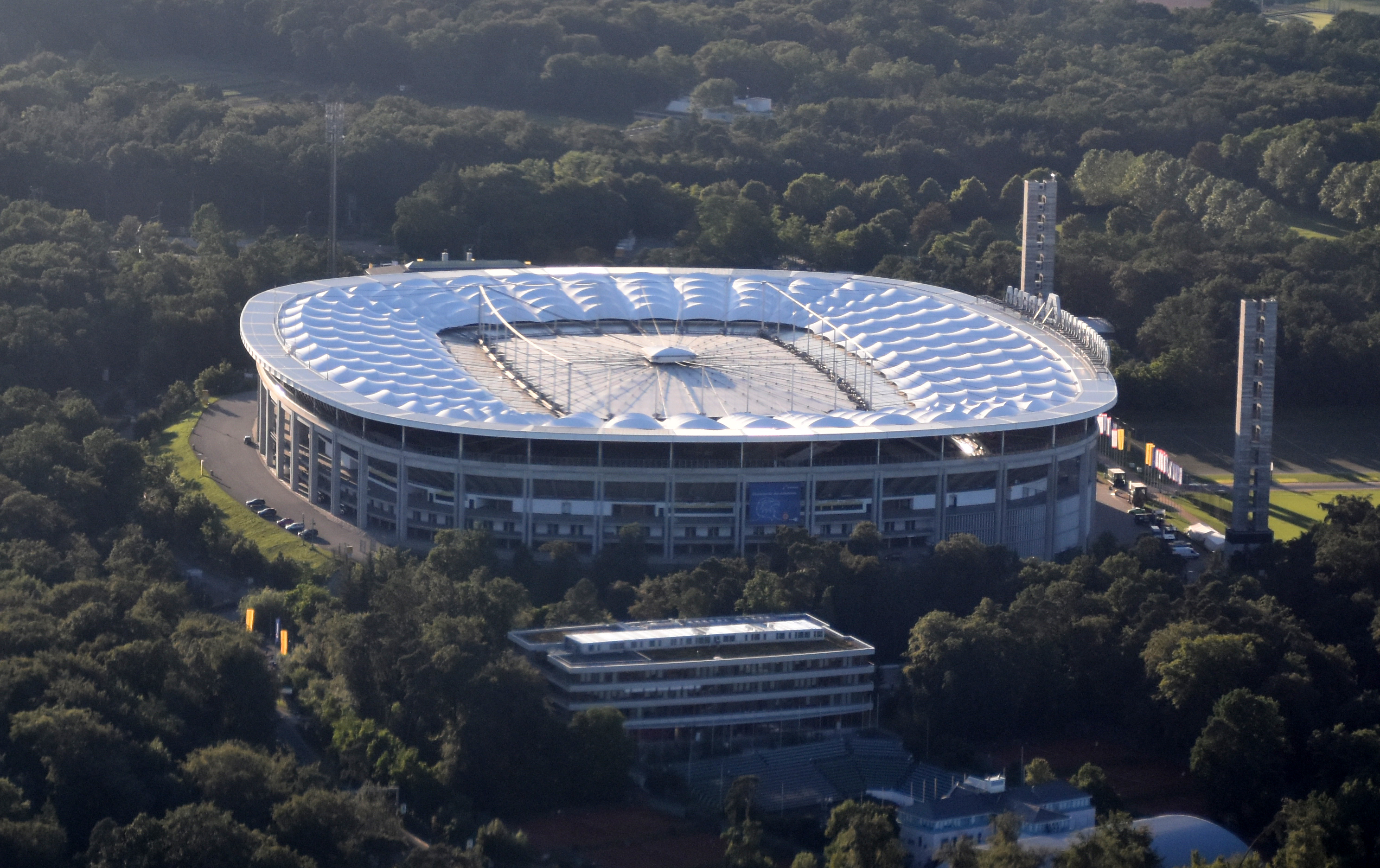 Aerial view of Commerzbank-Arena.